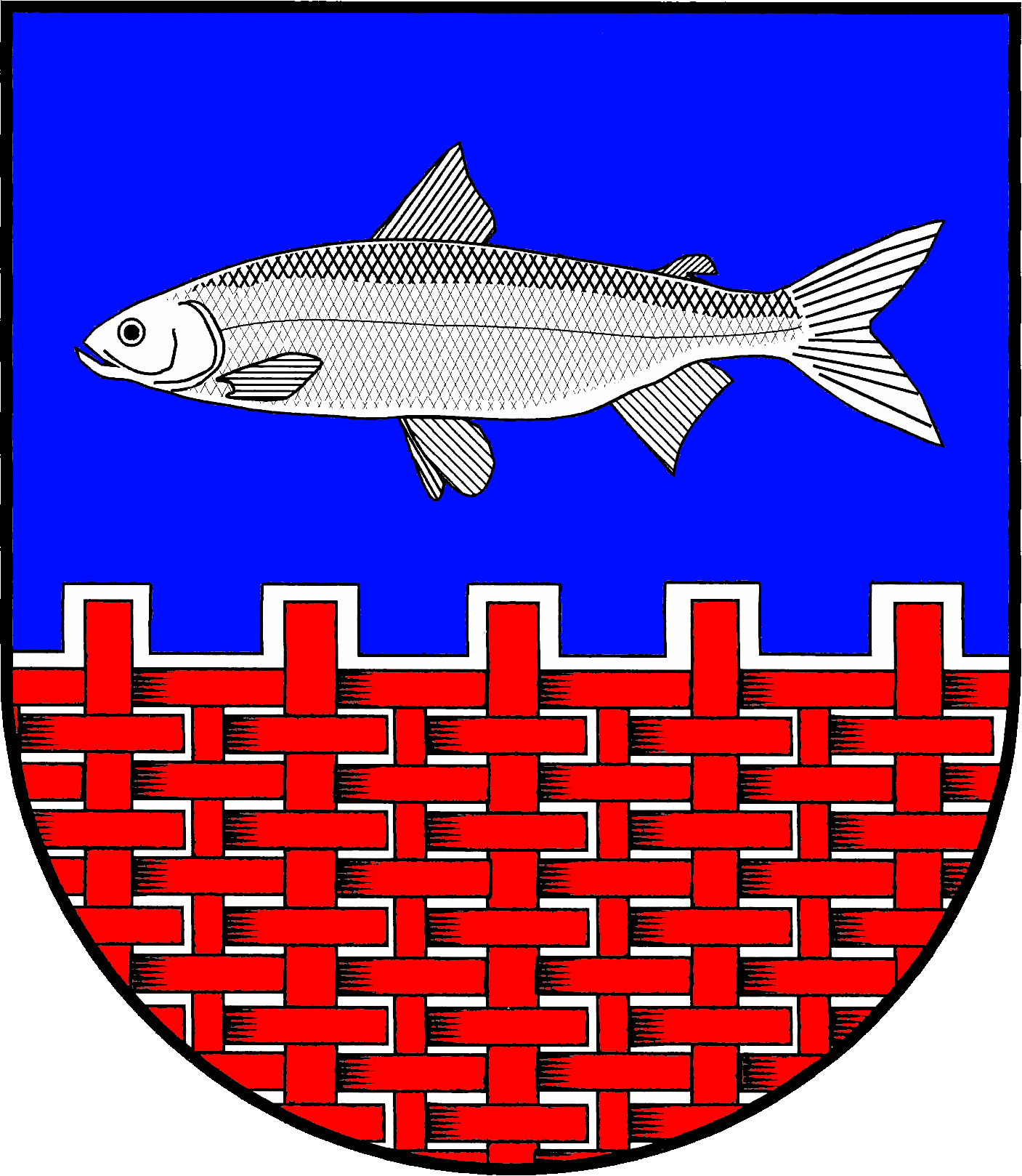 Coat of arms of the municipality Lammershagen in Schleswig-Holstein, Germany.